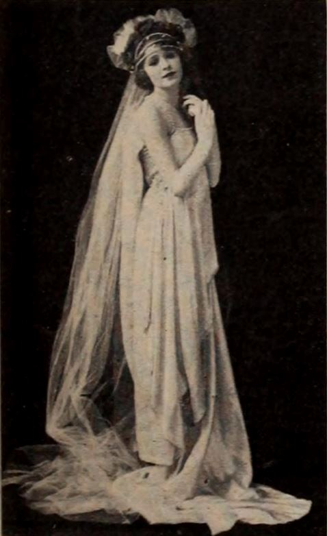 Still from the American comedy film Skirts (1921) with Alta Allen, on page 79 of the February 21, 1920 Exhibitors Herald.